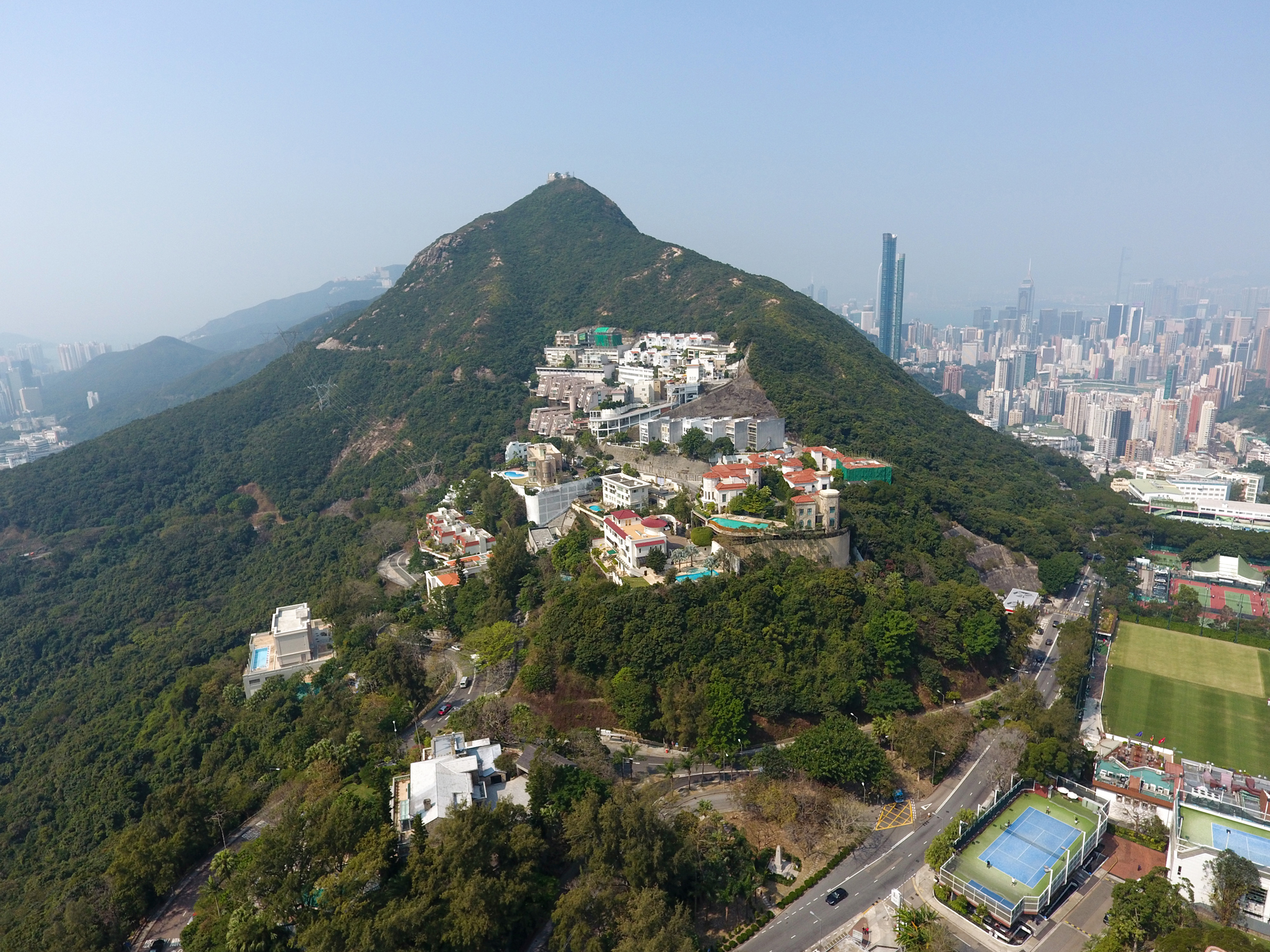 Black Link Residence